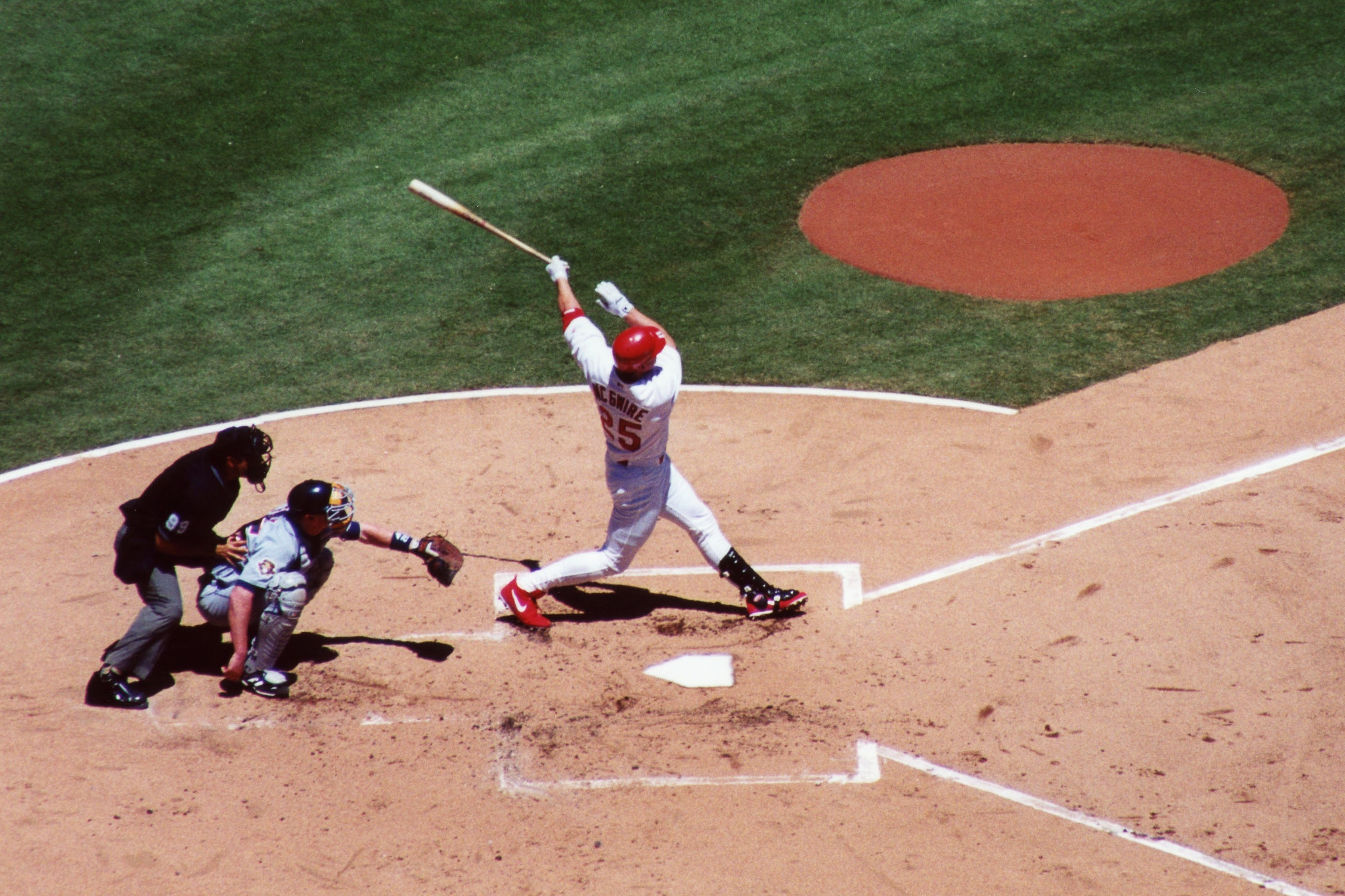 Mark McGwire, St. Louis, 2001. This picture was taken during a Saturday afternoon game against Detroit on July 14, 2001. It depicts McGwire's 10th home run of the season and 564th of his career, moving him ahead of Reggie Jackson for sixth on the all-time list.